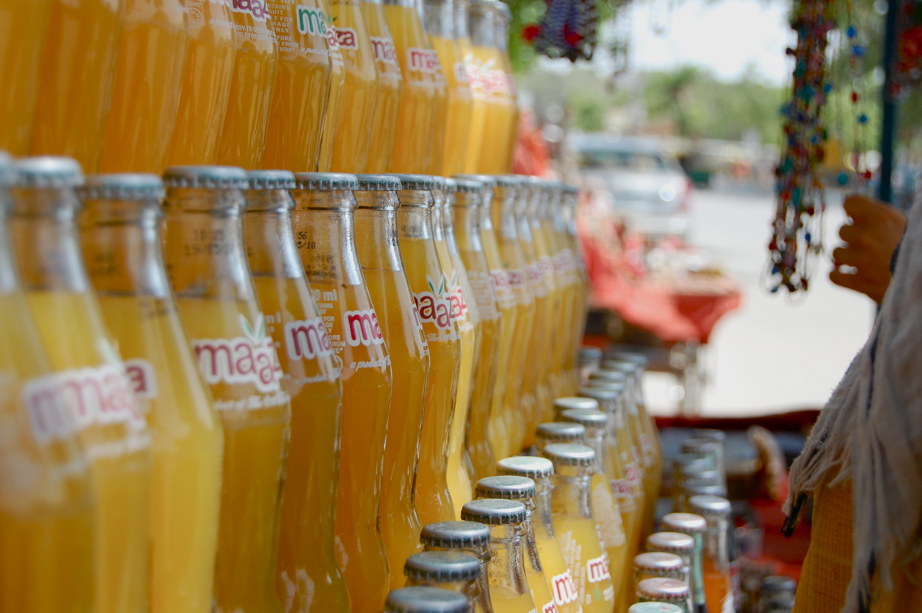 Maaza (Hindi: मज़ा, Bengali: মজা) is a Coca-Cola fruit drink brand marketed in India and Bangladesh, the most popular drink being the mango variety, so much that over the years, the Maaza brand has become synonymous with Mango. Initially Coca-Cola had also launched Maaza in orange and pineapple variants, but these variants were subsequently dropped. Coca-Cola has recently re-launched these variants again in the Indian market.